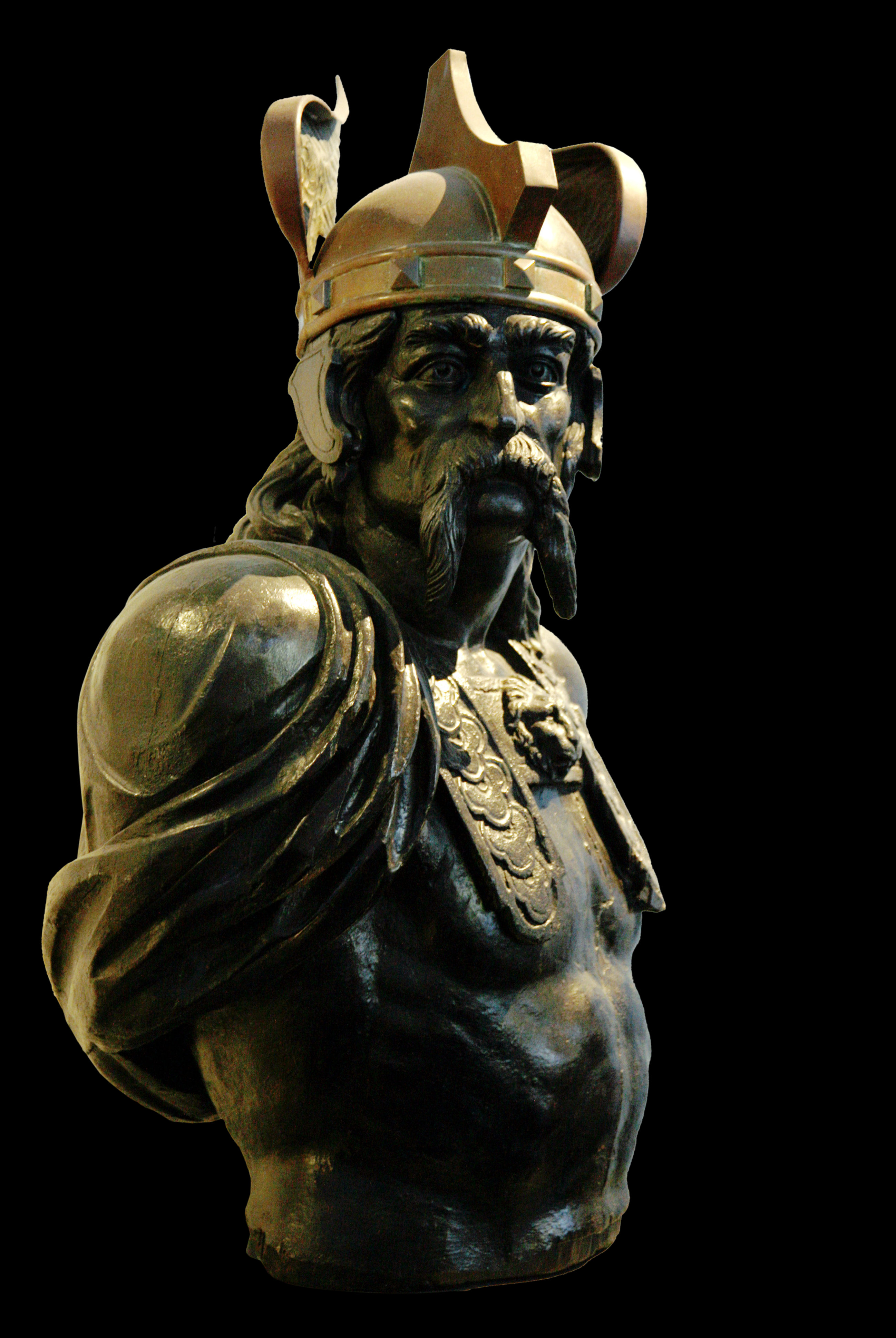 Artist Toulon Sculpture workshopDescription Figurehead of battleship BrennusCollection Musée national de la Marine Native nameMusée national de la MarineLocationParisCoordinates48° 51′ 43″ N, 2° 17′ 15″ E Established1827Web page control : Q1286709 VIAF: 19144648200974718522 ISNI: 0000 0001 2259 2914 LCCN: n50055356 Museofile: M5026 WorldCat institution QS:P195,Q1286709Accession number 41 OA 74Source/Photographer Med Figurehead of battleship Brennus